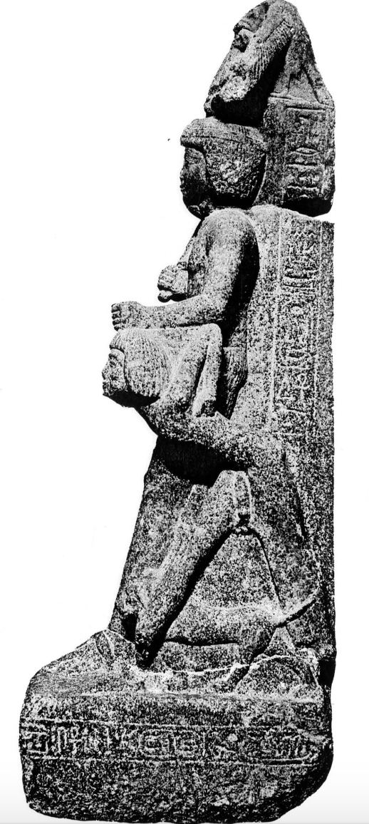 Statue of Ramesses VI holding a bound Lybian captive from Karnak and now in the Egyptian Museum, Cat. 42152.